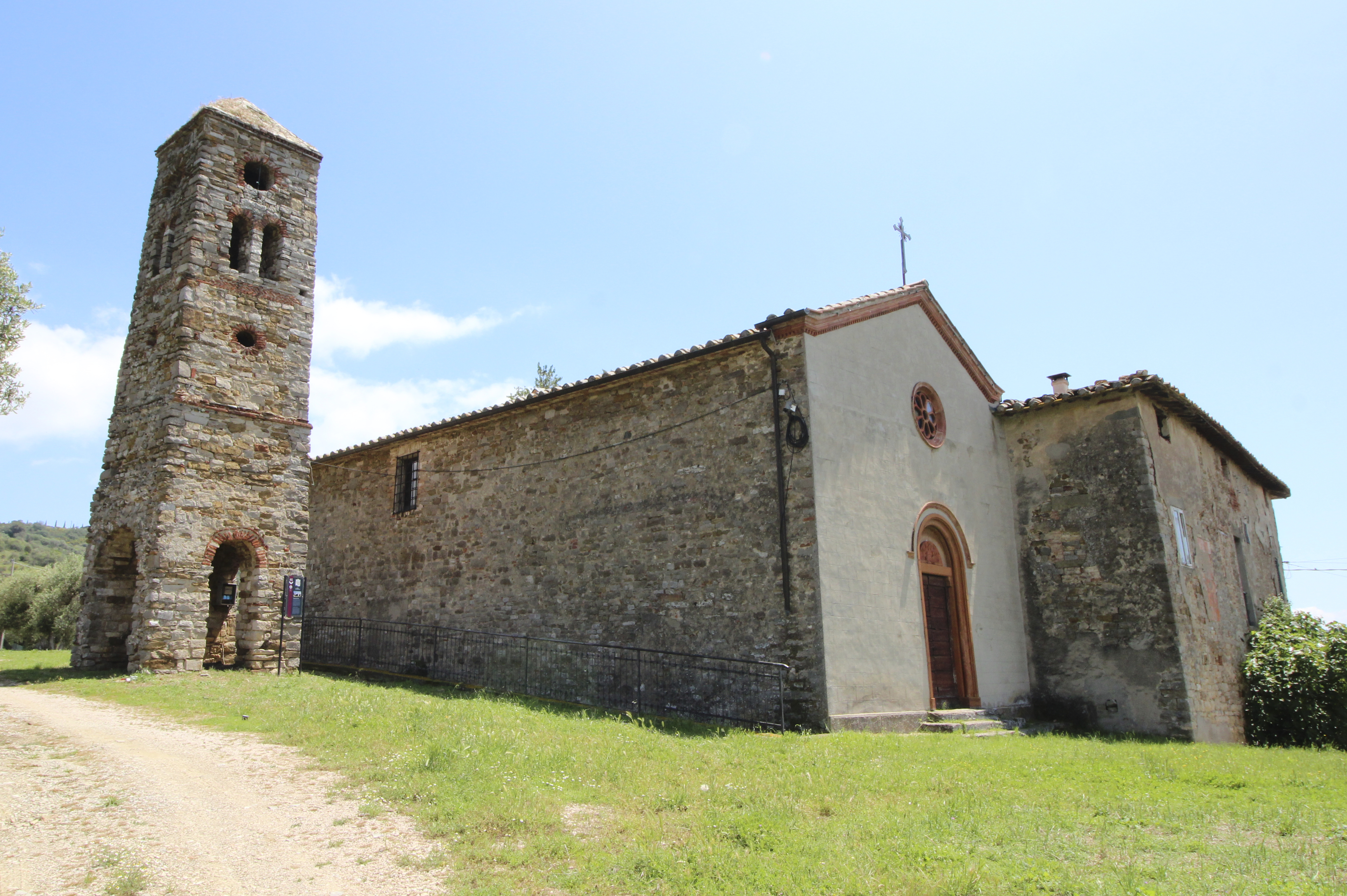 Church San Vito, San Vito del Lago, hamlet of Passignano sul Trasimeno, Province of Perugia, Umbria, Italy